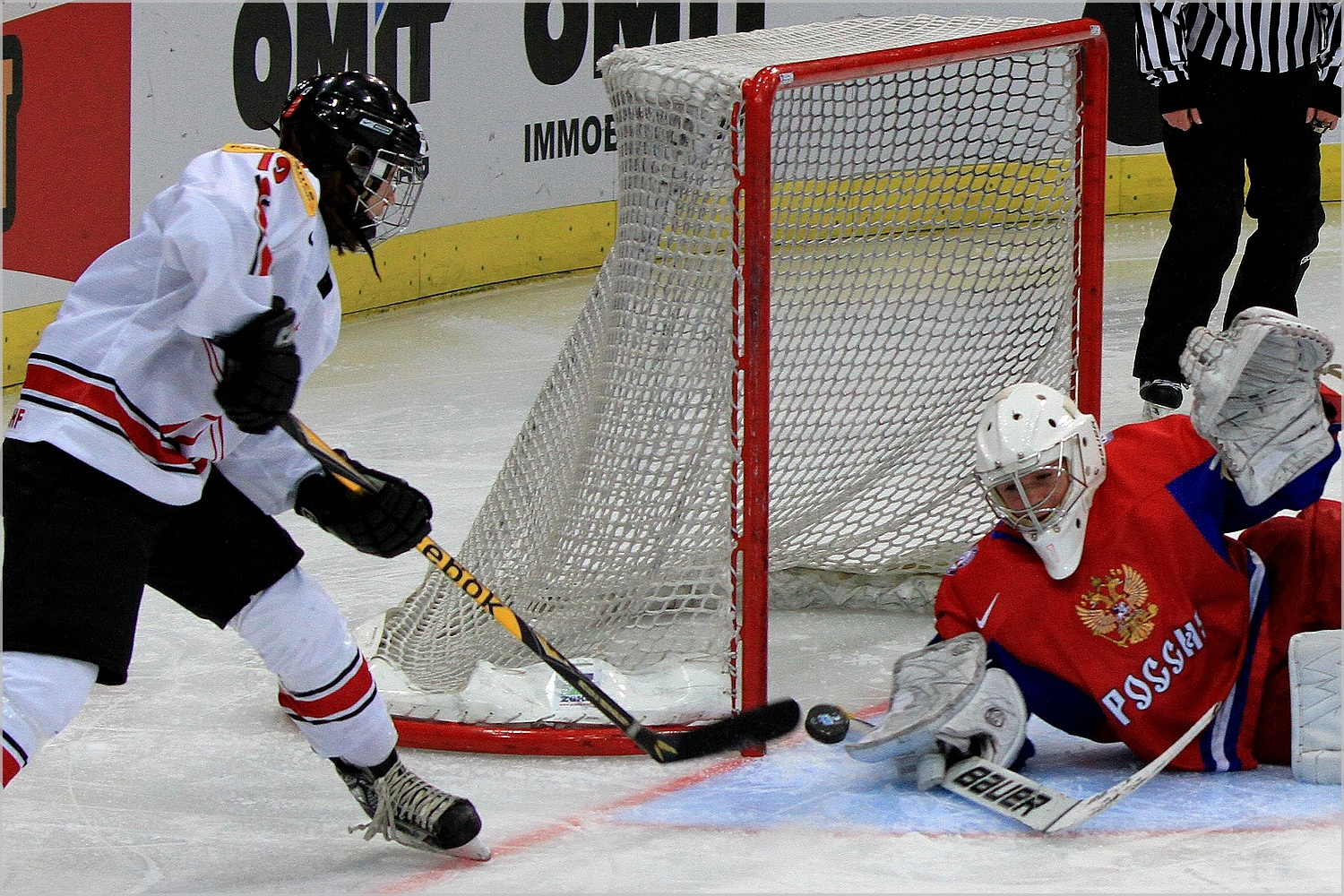 IIHF World Women Championship 2011. Quarterfinal Switzerland - Russia 4-5 OT